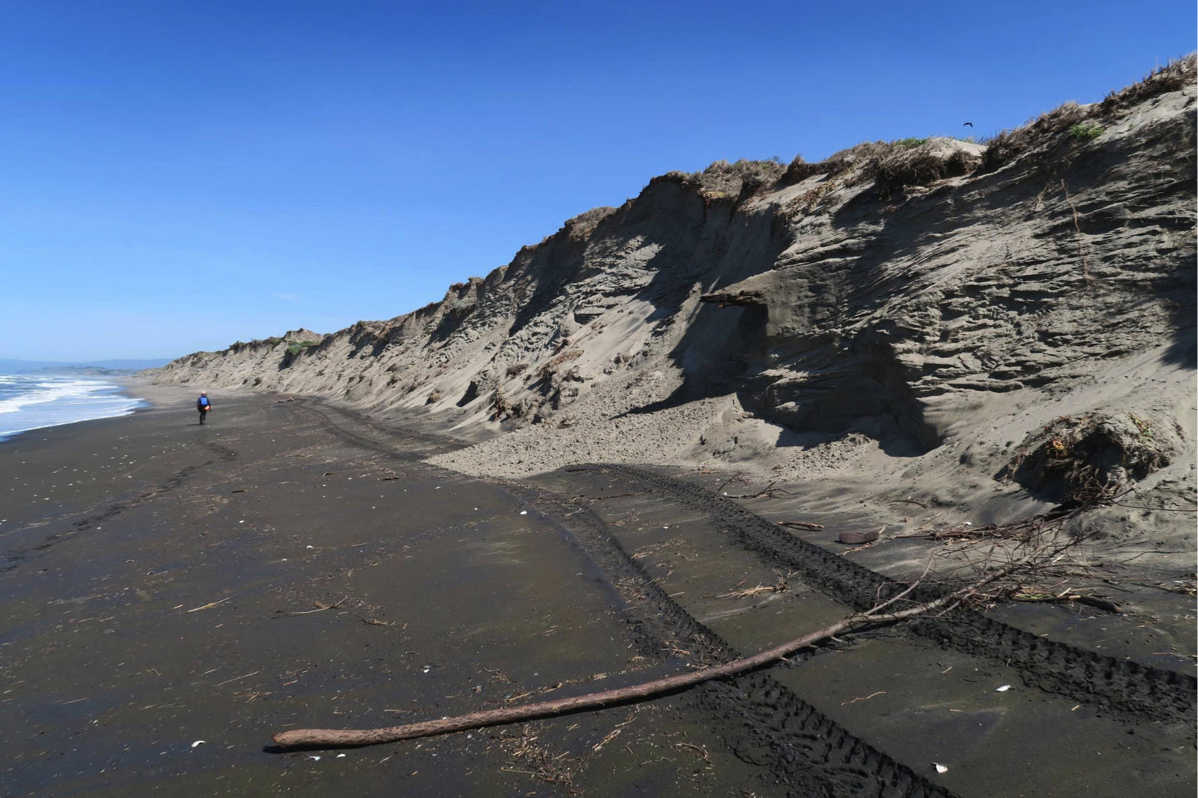 Sandy beach and cliffs at , California